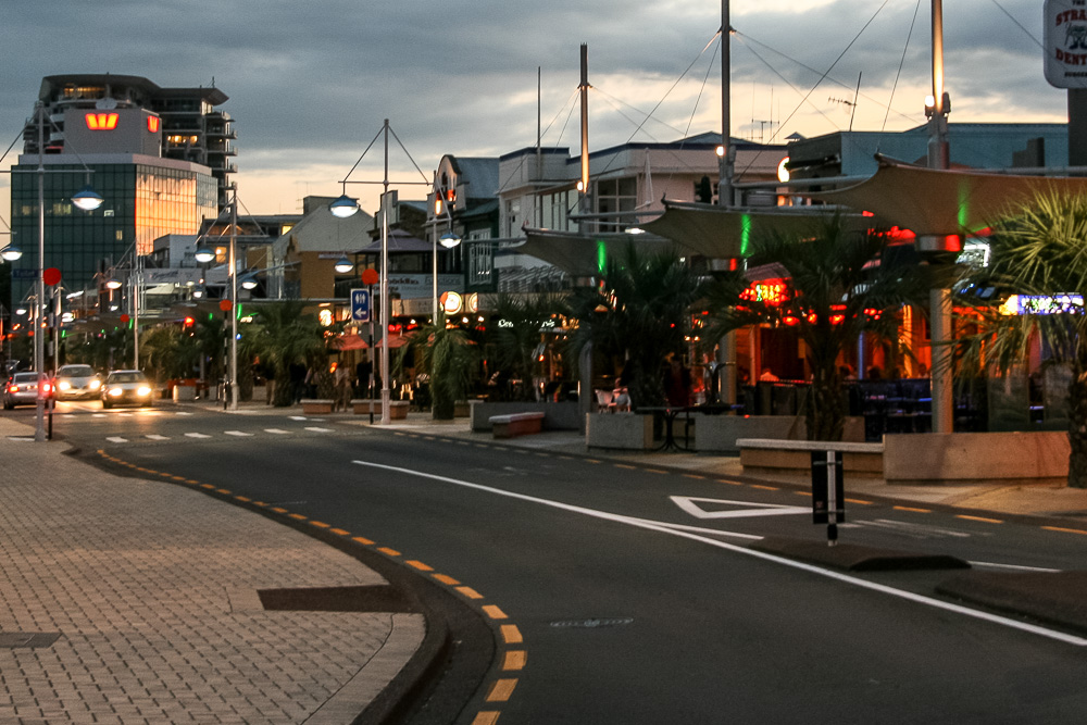 Tauranga central Night Time